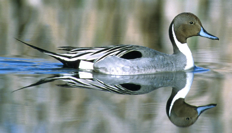 The Northern Pintail is one of the many duck species found in Huron Wetland Management District